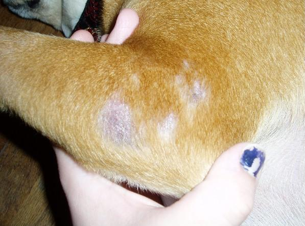 From english wikipedia: [1]